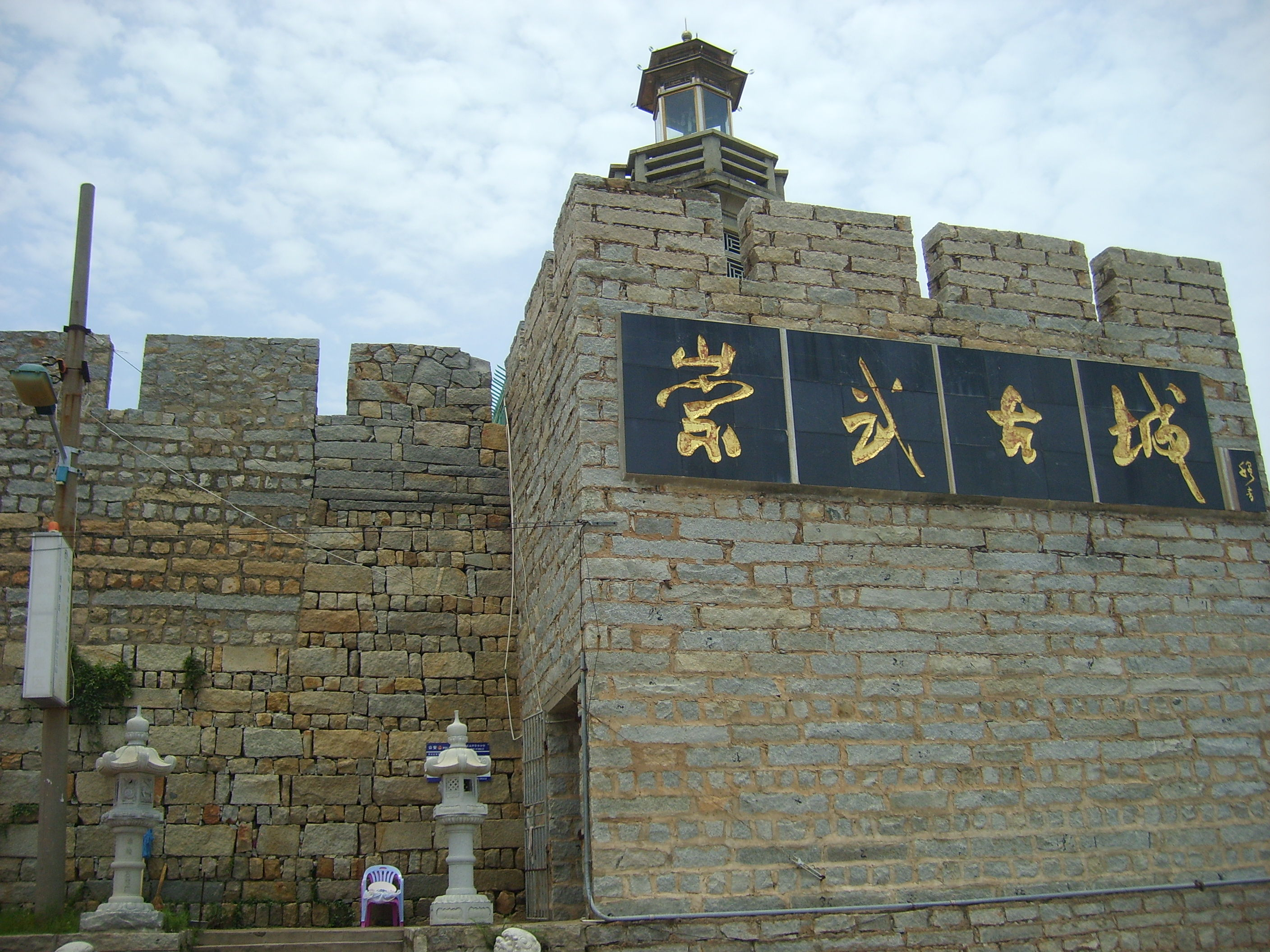 Chongwu city wall, Chongwu, China